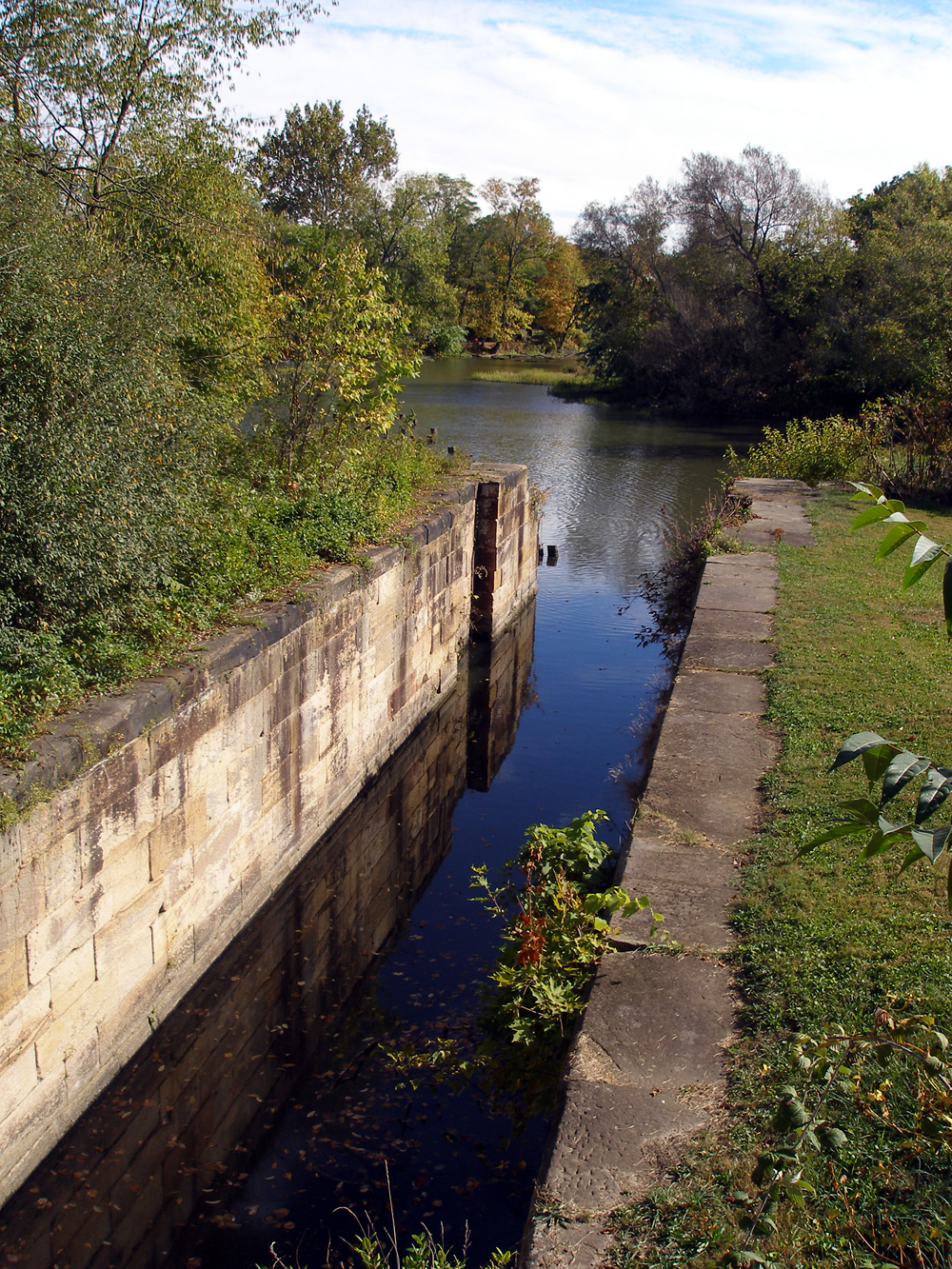 View of the Triple Locks of the Walhonding Canal in Roscoe Village near Coshocton, Ohio.